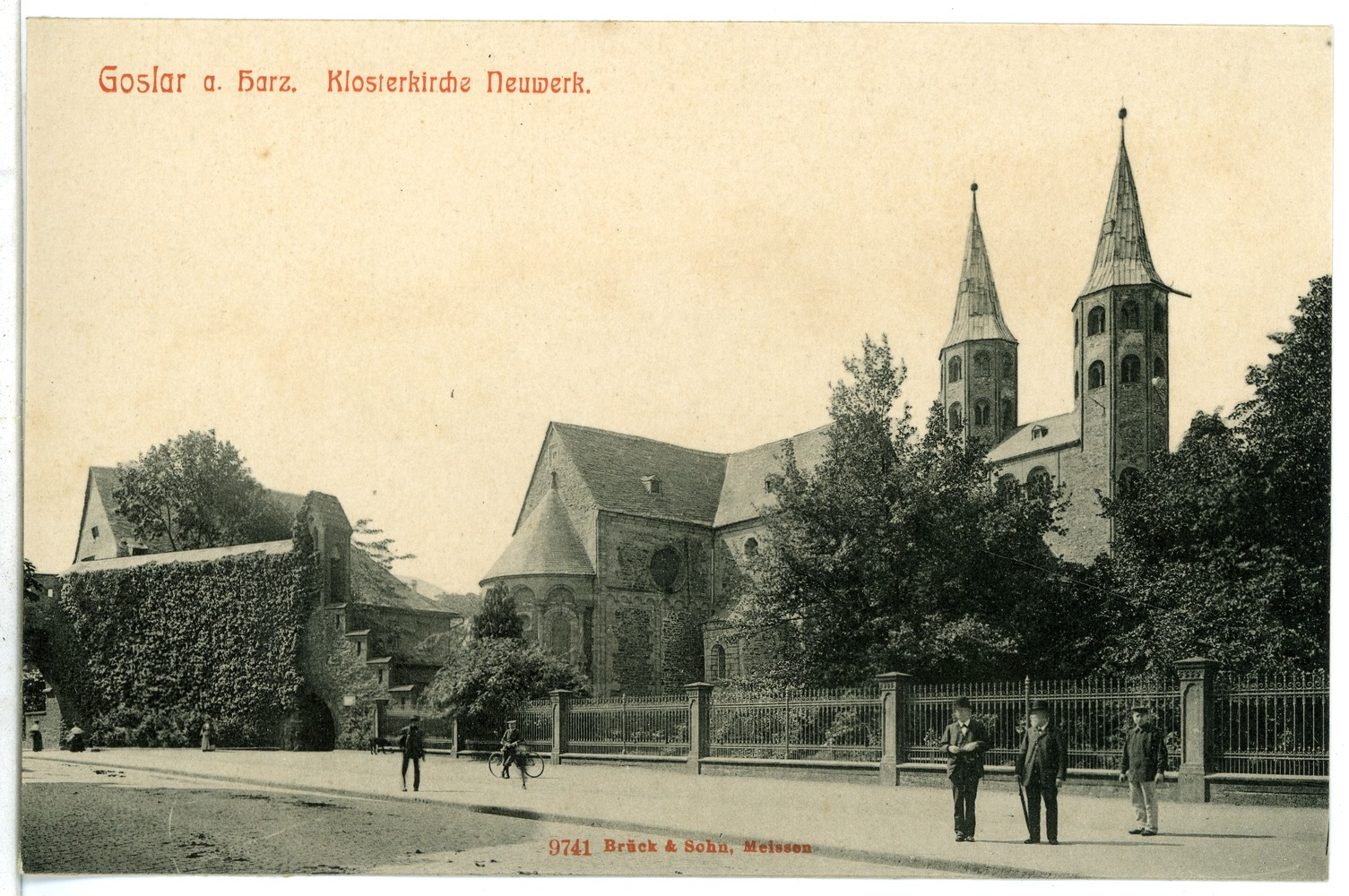 This postcard is from publisher Brück & Sohn in Meißen ( This postcard has a unique number 09741 and is available in a higher resolution at the publisher. This images was uploaded in a cooperation project between Wikipedians and the publisher.